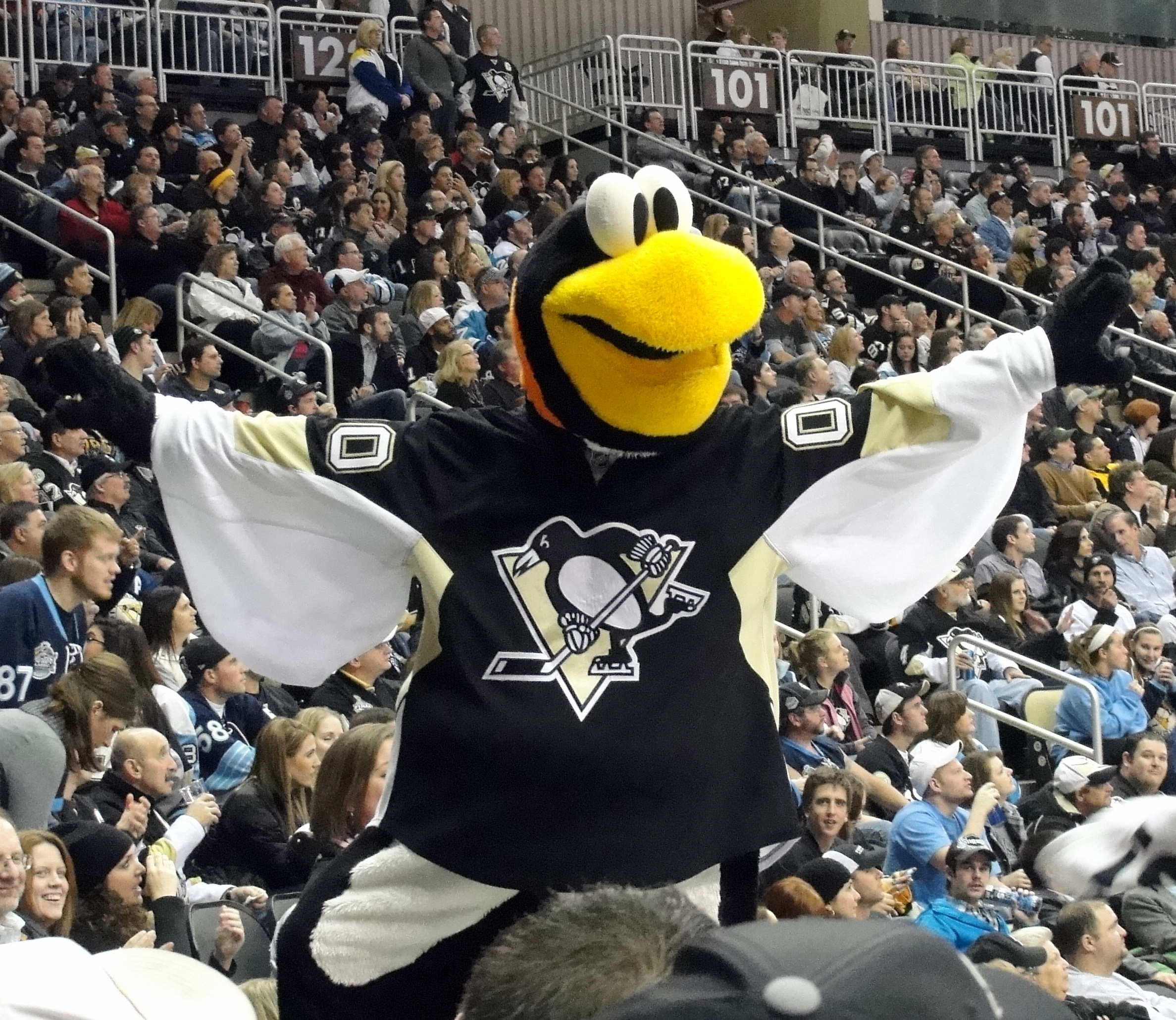 Pittsburgh Penguins mascot Iceburgh gives the no-goal call after an apparent St. Louis Blues goal was disallowed during a November 23, 2011 game at Consol Energy Center in Pittsburgh, PA.